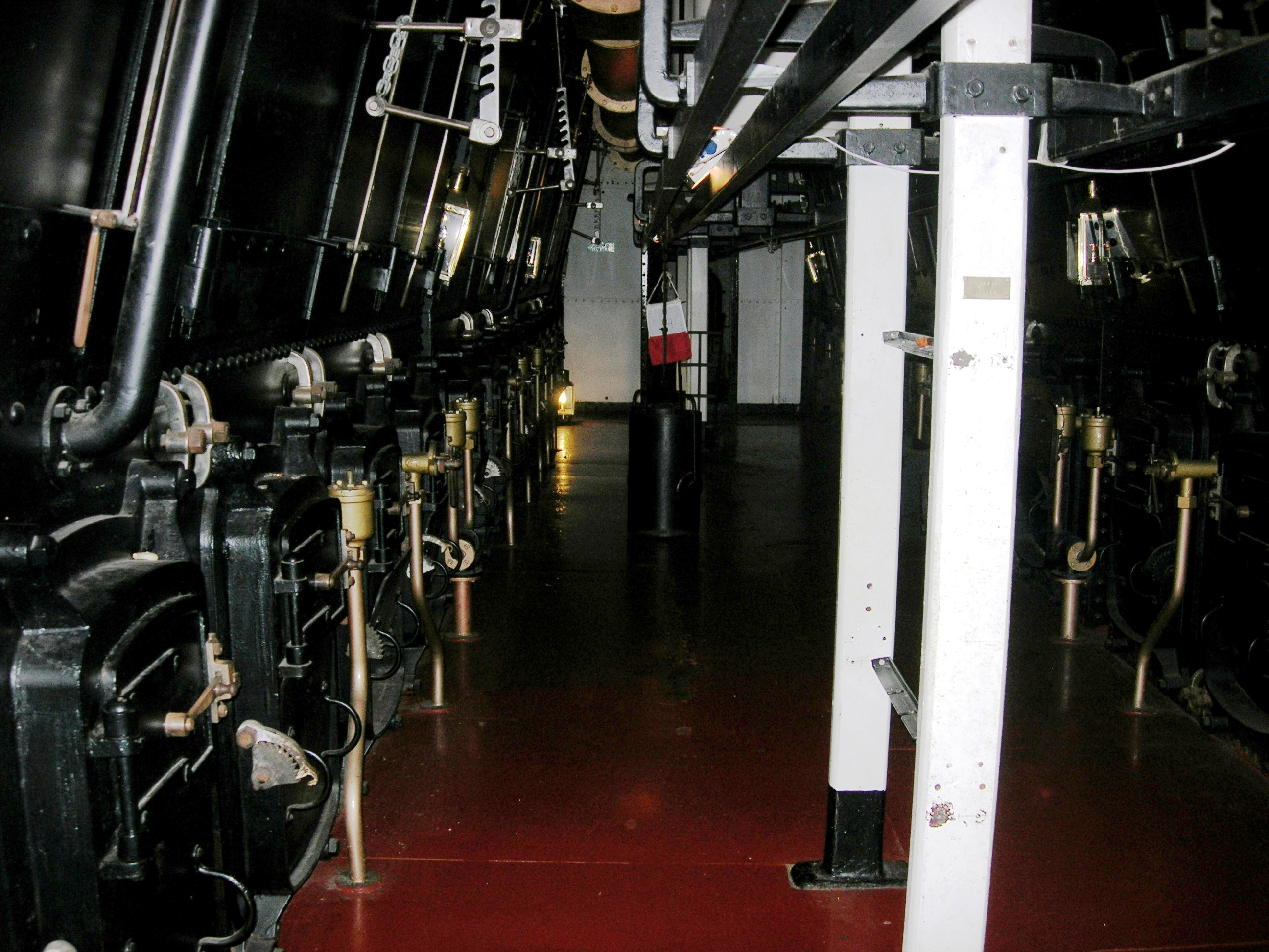 Description =HMS Warrior chaudière Source =Photo taken by Remi Jouan Date =Mai 2006